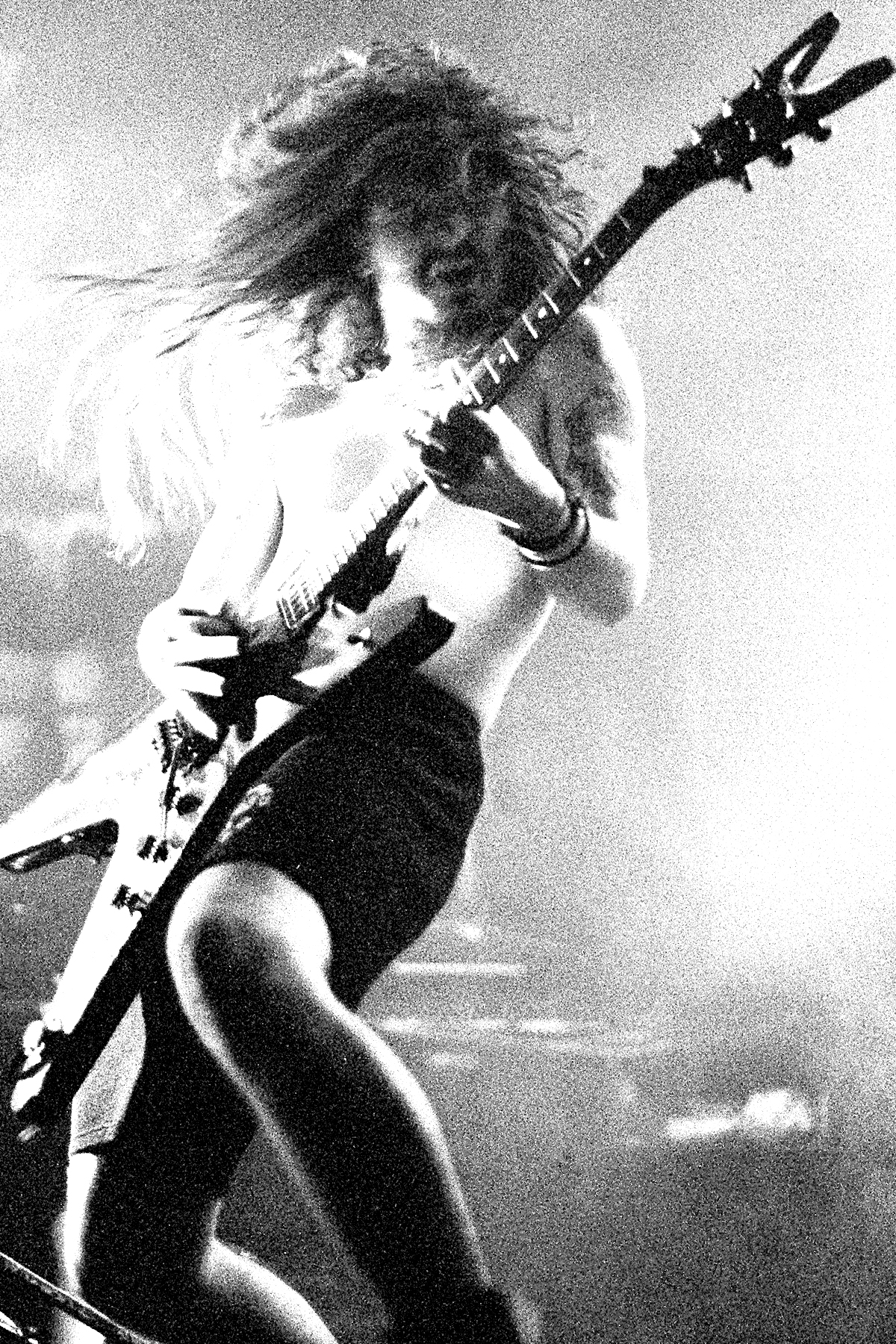 Dimebag Darrell with Pantera live at The Bayou in Georgetown, Washington, DC, on the Cowboys from Hell tour.